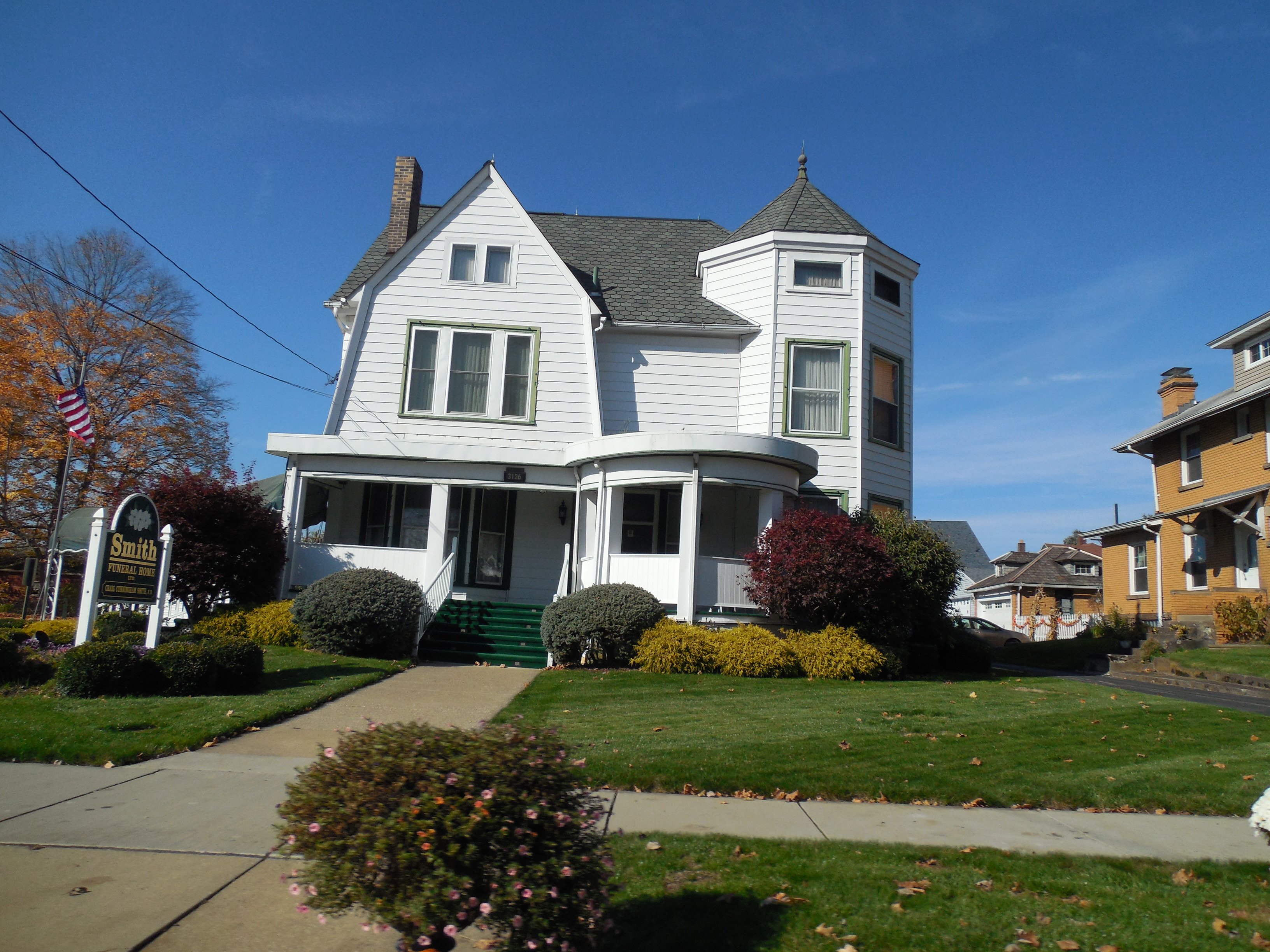 Front of the Smith Funeral Home, located at 3126 Main Street (Pennsylvania Route 318) in West Middlesex, Pennsylvania, United States.